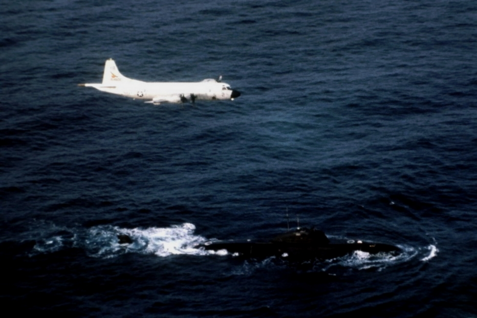 A U.S. Navy Lockheed P-3B-105-LO Orion aircraft (BuNo 154602) from Patrol Squadron VP-1 Screaming Eagles overflying a Soviet Victor I class nuclear-powered attack submarine.